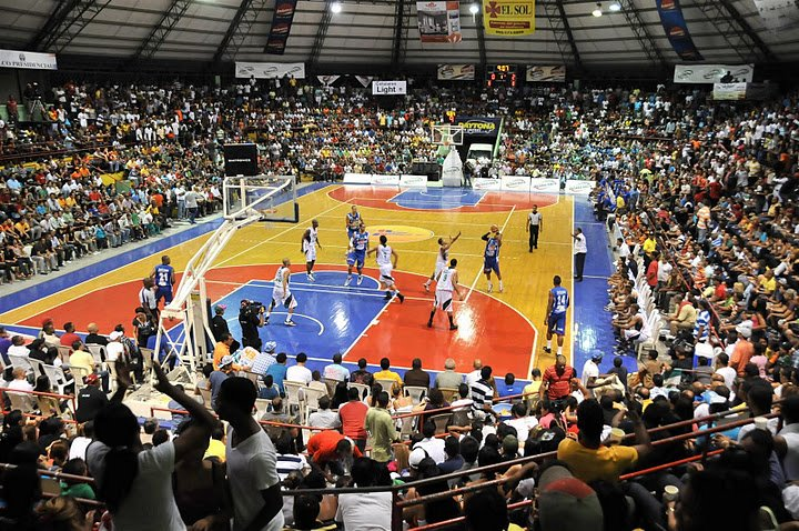 Pabellon Fernando Teruel, handball and basketball stadium of La Vega City